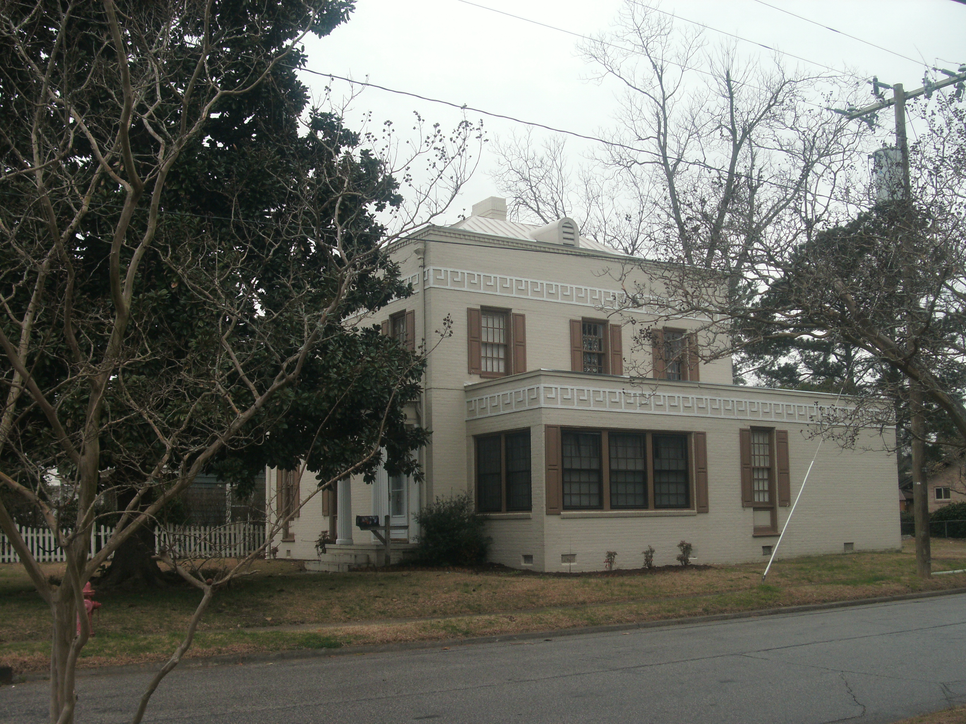 Williamston, North Carolina, March, 2015 GEDSC DIGITAL CAMERA